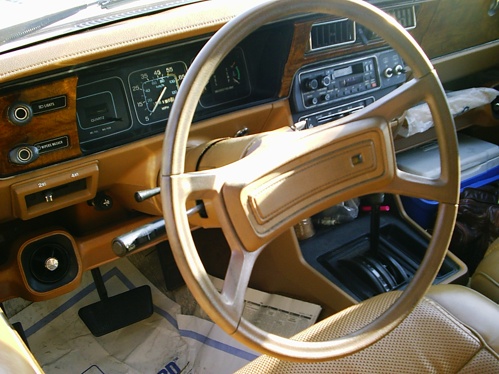 AMC Eagle four-door station wagon (automatic all-wheel-drive) by American Motors Corporation (AMC) Standard interior and dashboard.